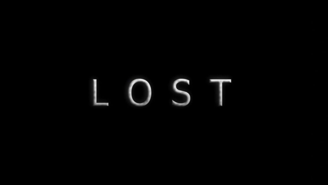 Title of the tv-series LOST.